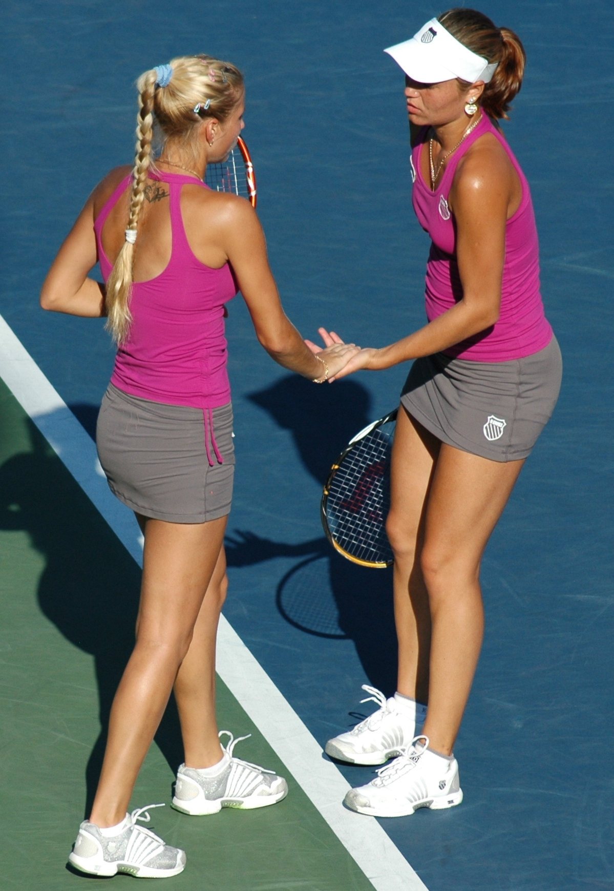 Alona & Kateryna Bondarenko at the 2008 US Open